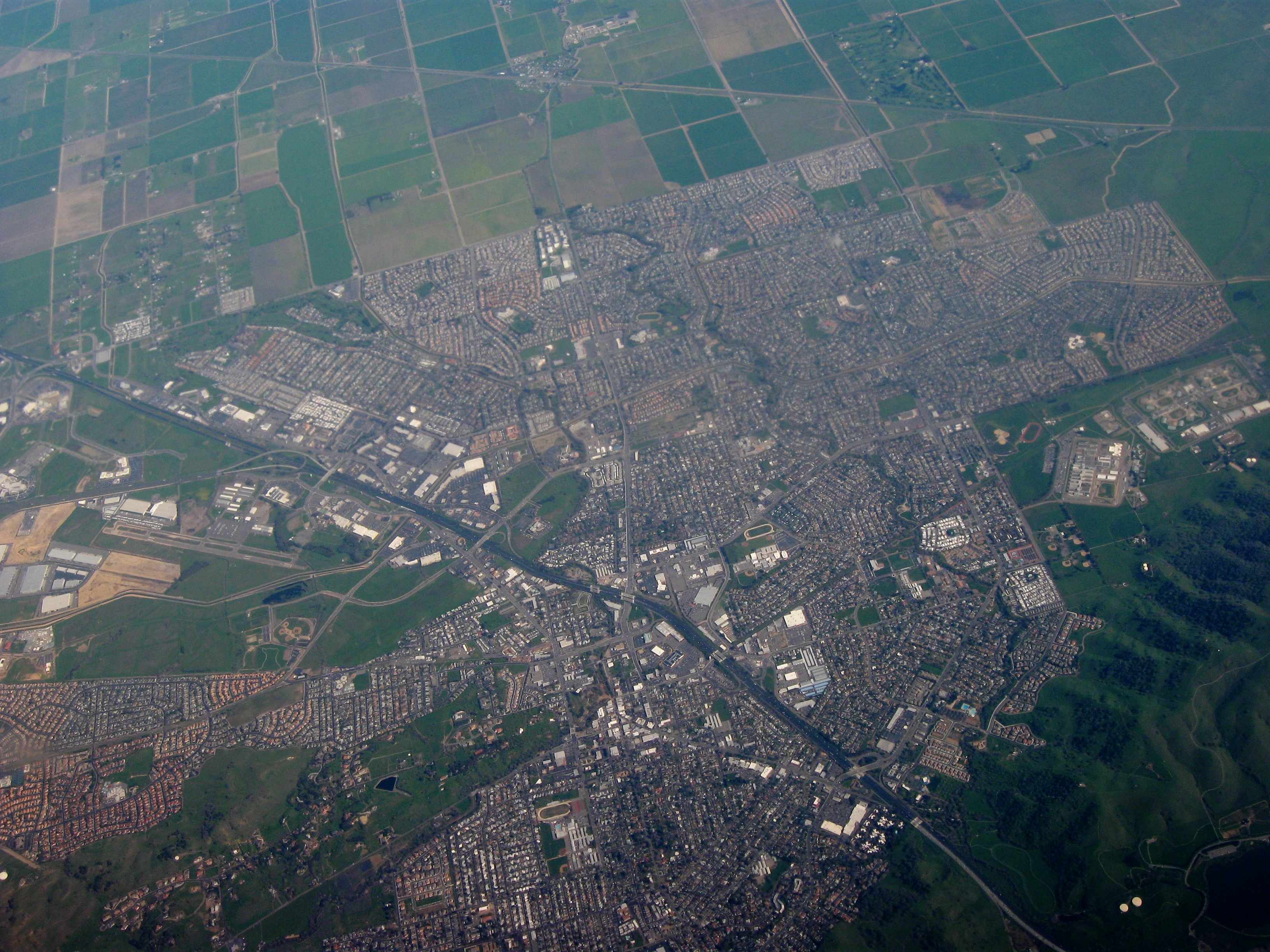 Aerial view of the city of Vacaville, California.